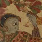 Hidimba Reveals their Identity, Scene from the Story of the Marriage of Abhimanyu and Vatsala, Folio from a Mahabharata ([War of the] Great Bharatas)